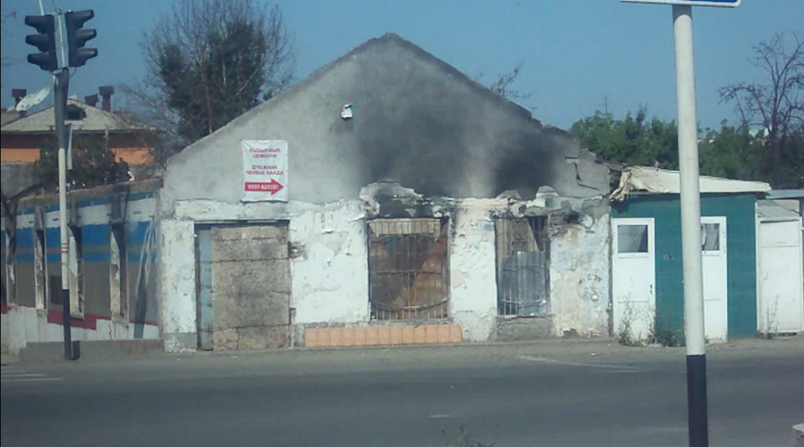 Burned down building in Osh after a year following the June 2010 inter-ethnic violence in southern Kyrgyzstan.